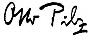 Signature of German sculptor Otto Pilz cropped from a postcard from 1915 (postcard in: Vogel, Vogel: Otto Pilz (2008), p. 22.)